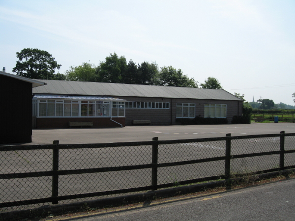 School at Linton-on-Ouse, North Yorkshire